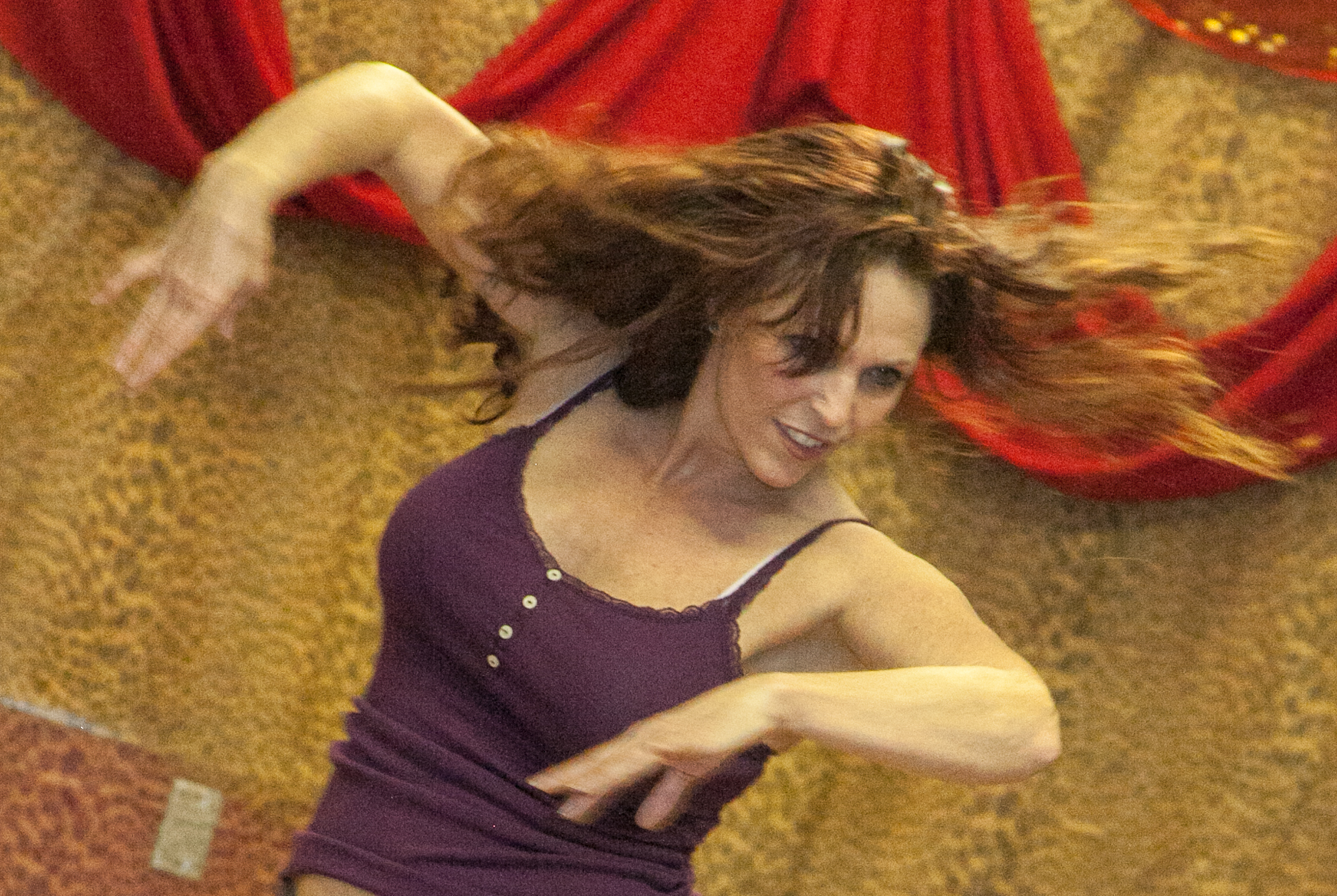 The belly dance community in Anchorage organized a hafla, an informal gathering of dancers, to attend a workshop featuring some famous talent from Outside. They lowered their standards and let me attend - my lucky day! We might live in a small city but we have a great collection of dancers, spanning all ages and sizes - and they all share enthusiasm and passion for the dance; all of them also seem to really enjoy what they do. I'm so fortunate they let me shoot with them and one of these days my photos will do them justice! Thanks again ladies for an absolutely amazing evening! The hafla took place at Alaska Dance Promotions in South Anchorage, Alaska, in September 2012